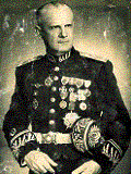 General Almério de Castro Neves